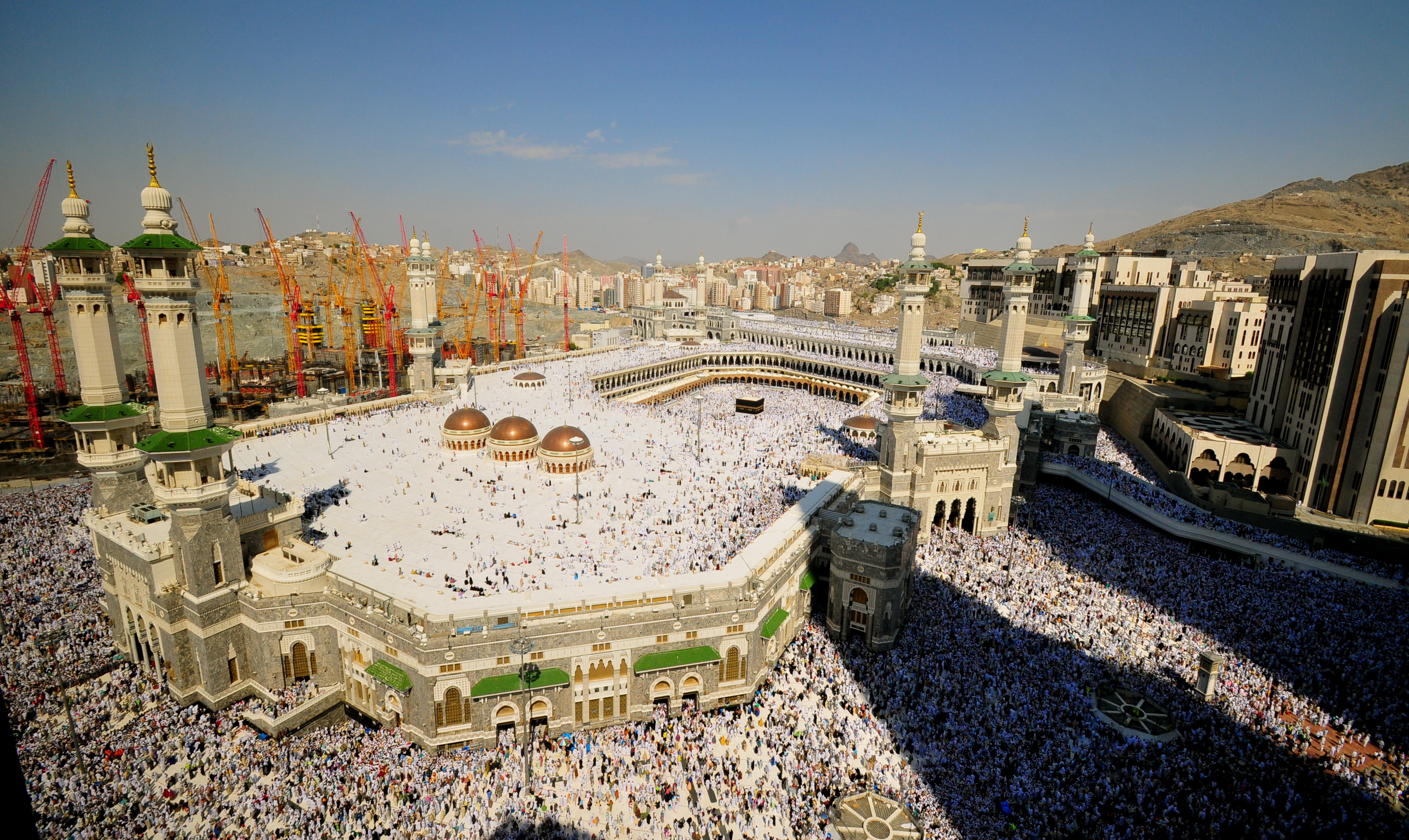 The grand mosque in Mecca